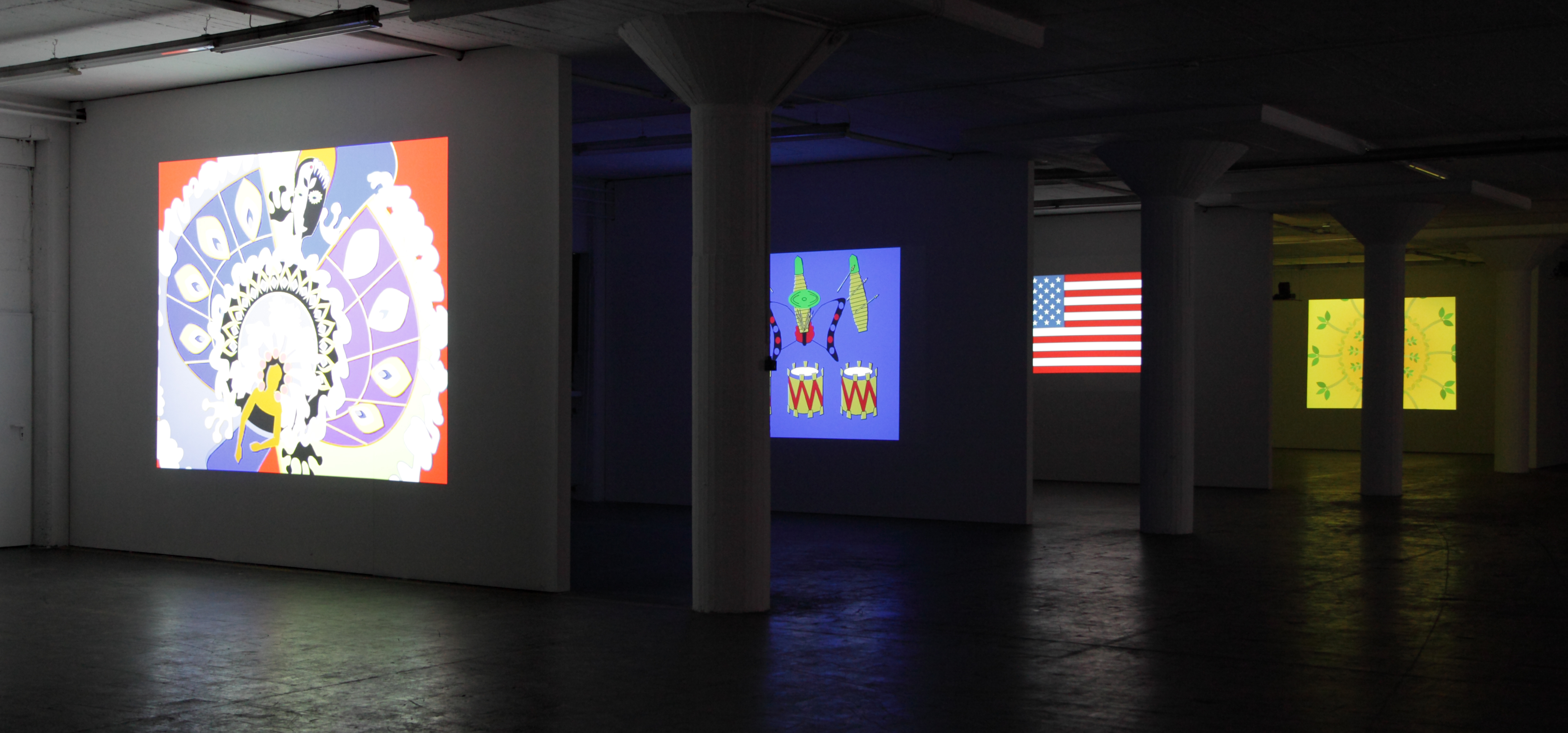 Flag Metamorphoses - participatory animation art project: exhibition at Halle Zehn, CAP Cologne, Cologne, Köln, Germany, April 2010